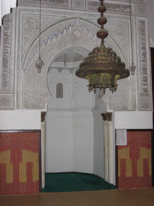 Fes or Fez is the third largest city of Morocco, with a population of approximately 1 million. It is the capital of the Fès-Boulemane region. Fas el Bali is a UNESCO World Heritage Site.